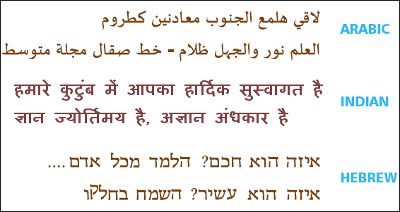 Bitstream Panorama rendering text in various multiple languages